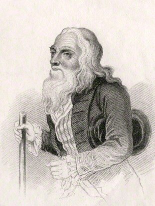 Matthew Robinson, 2nd Baron Rokeby(1712-1800)